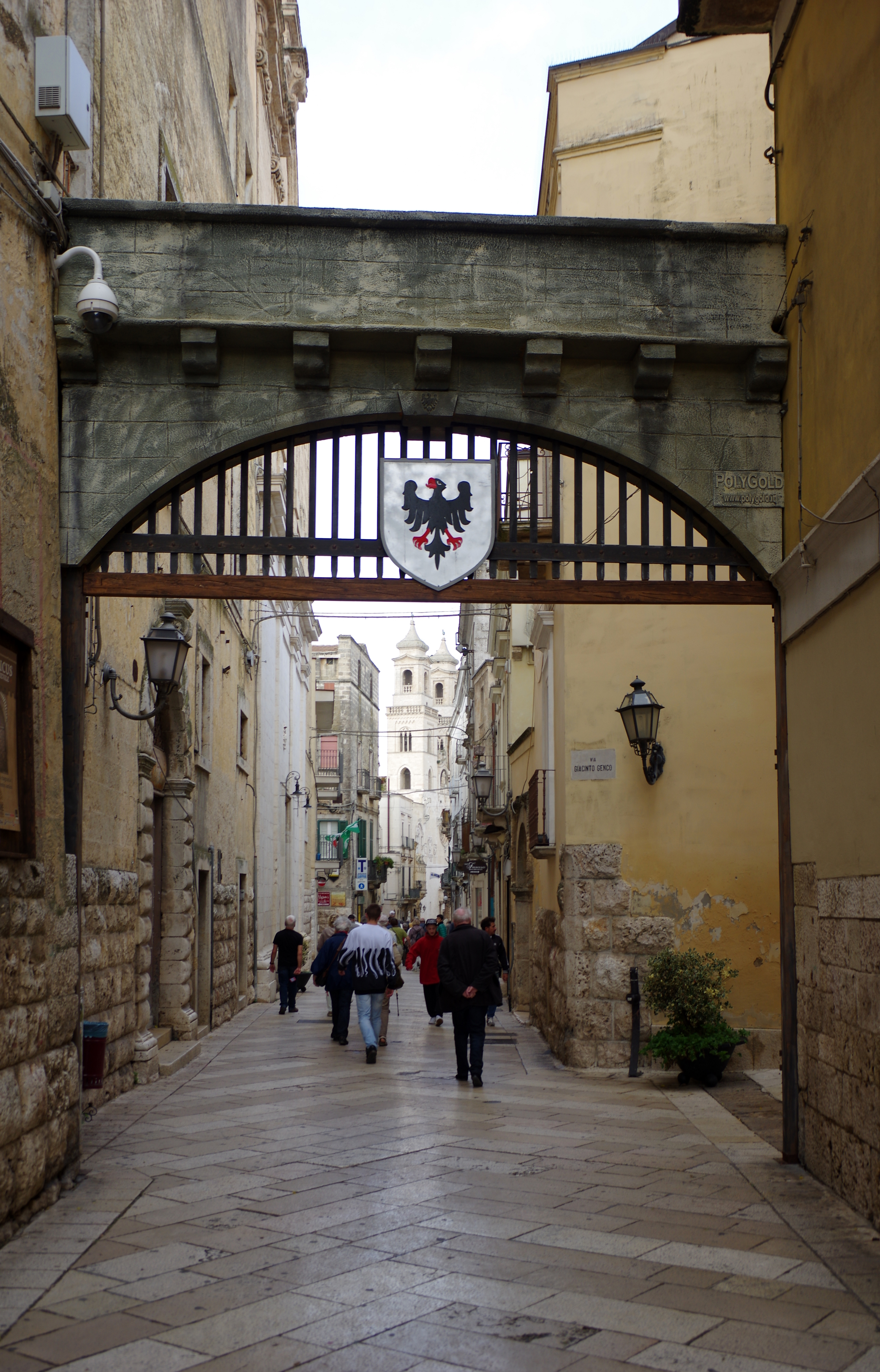 Italy, Altamura, Corso Federico II di Svevia